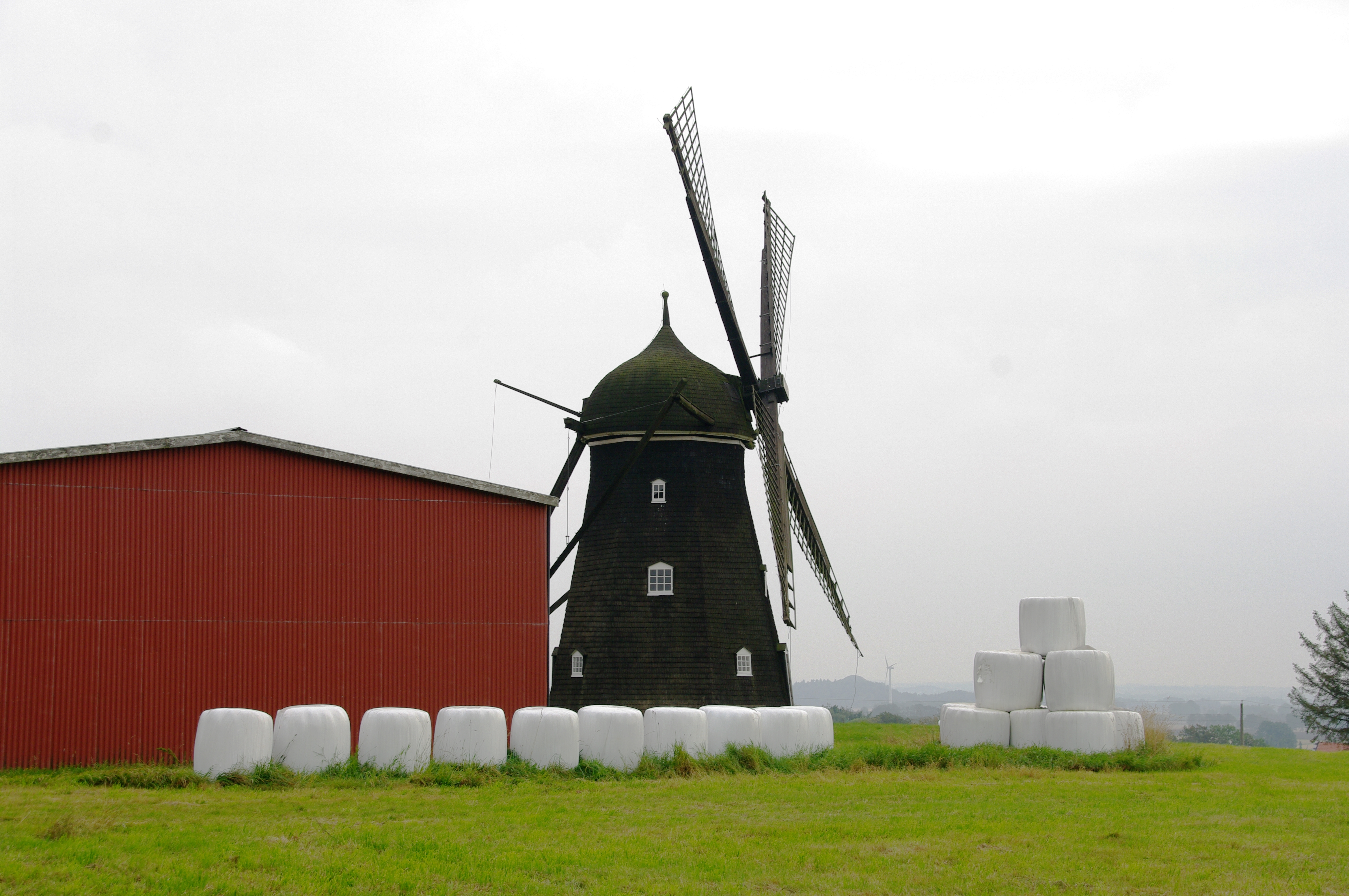 Ausås windmill, a so called Smock Ground Sailer from the beginning of the 19th century. It is fully functioning with grinding mill, wodden cogwheel and sails with sailcloths.